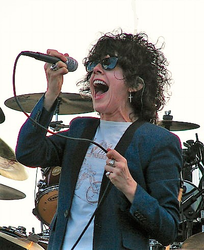 LP performing at WTMD's First Thursday series in Canton, Baltimore, MD in June 2014.